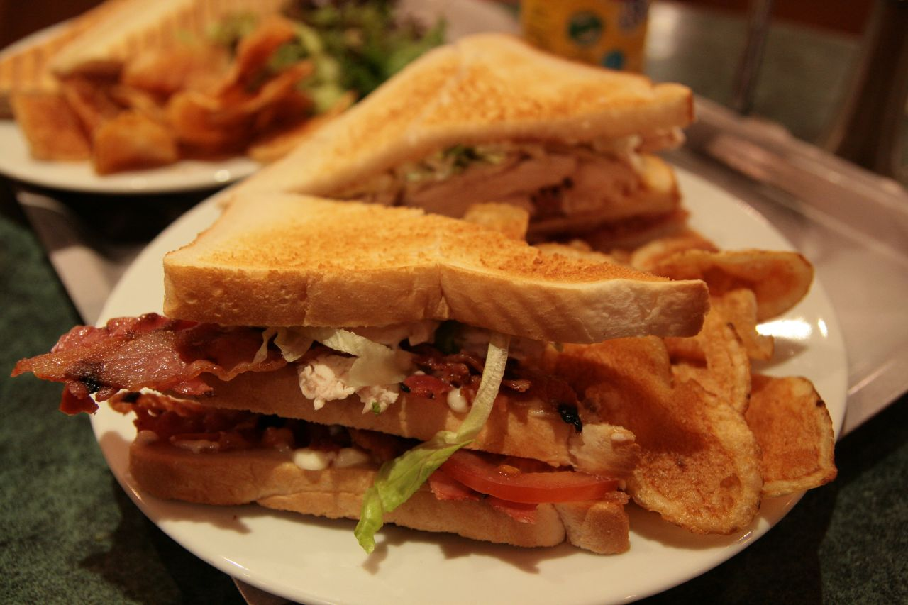 A club sandwich (Chicken, bacon, salad, etc), photo taken in Preston, UK -- Ein Club-Sandwich, Foto aufgenommen in Preston, UK